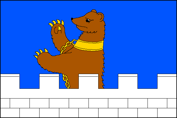 Municipal flag of Sedlice town, Strakonice District, Czech Republic.